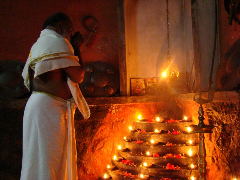 Gurukkal praying before the poothara, Sreepathy CVN Kalari, Ettumanoor.